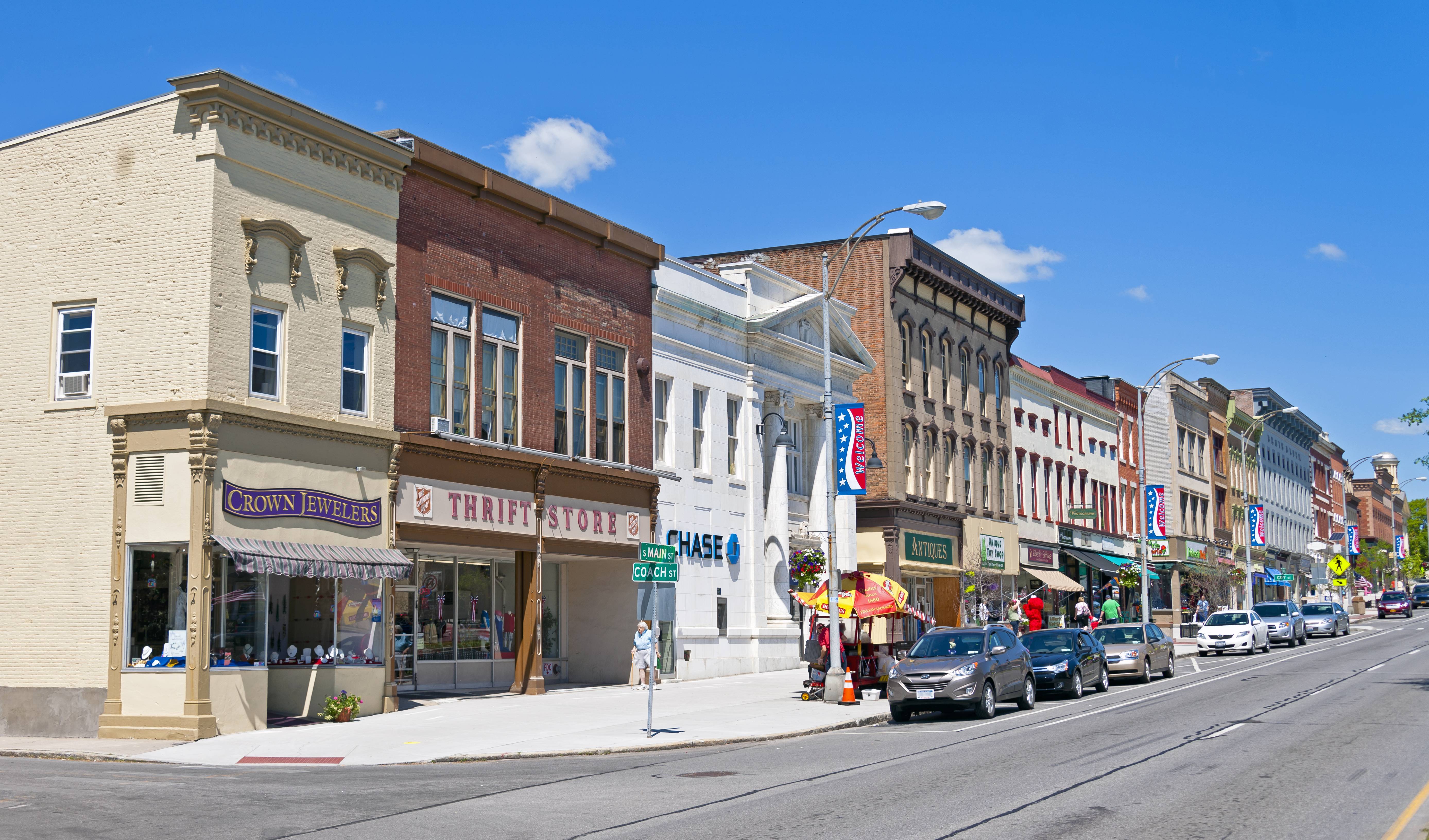 Buildings on west side of Main Street (NY 21/332), Canandaigua, NY, USA, part of the Canandaigua Historic District. Vehicle license plate number on left blurred to protect owner's privacy.